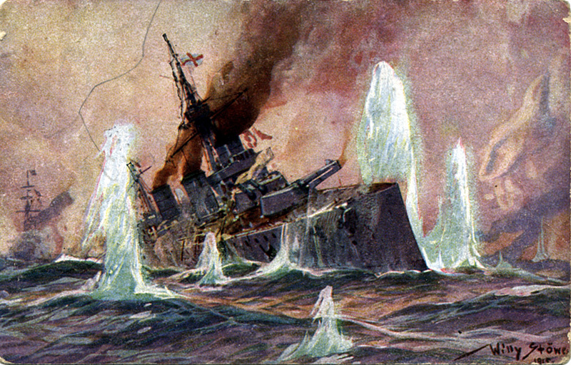 The British flagship HMS Lion, heavily damaged by German shells during the Battle of Dogger Bank 1915.